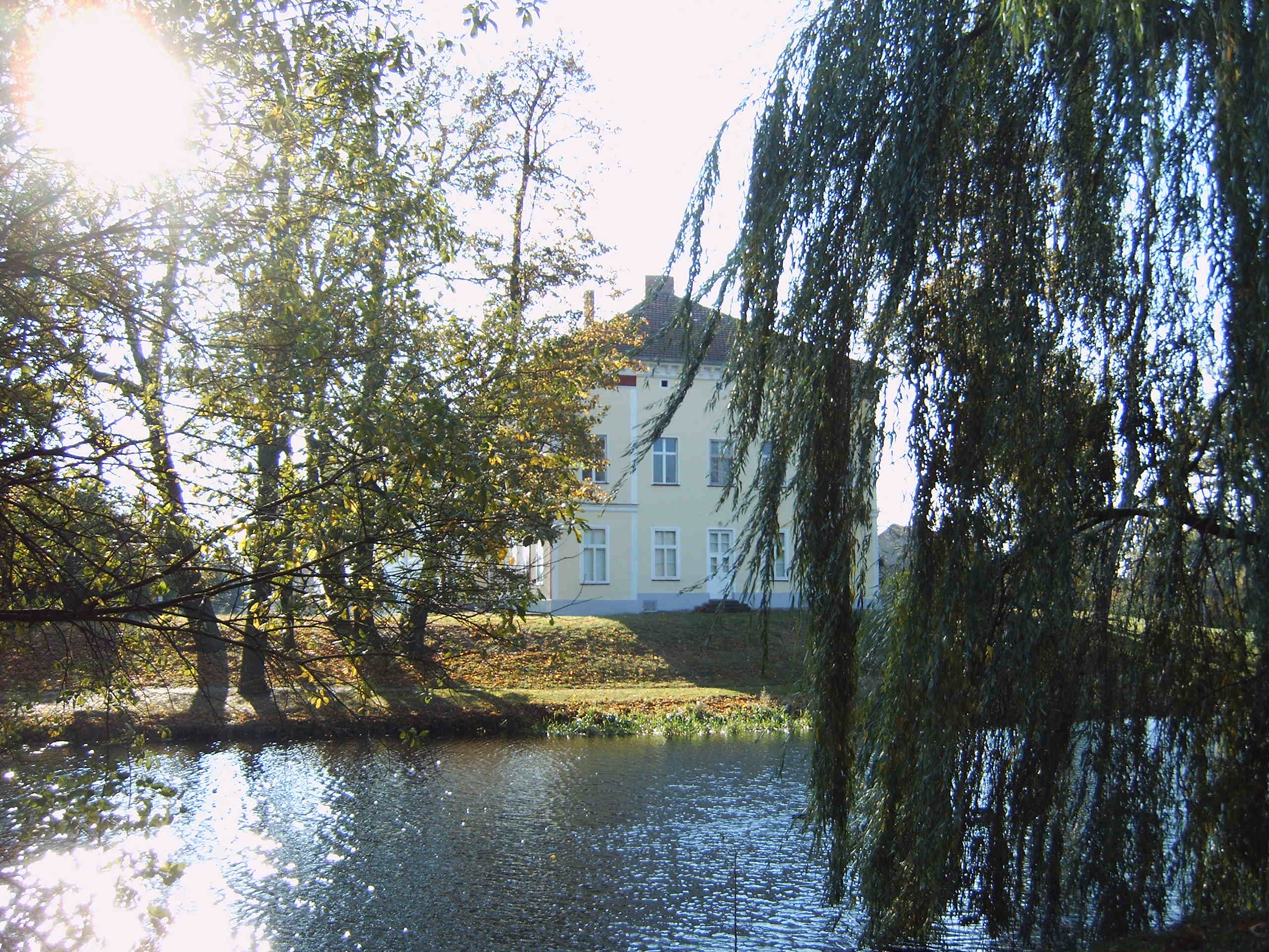 Manor house Parchen, Saxony-Anhalt